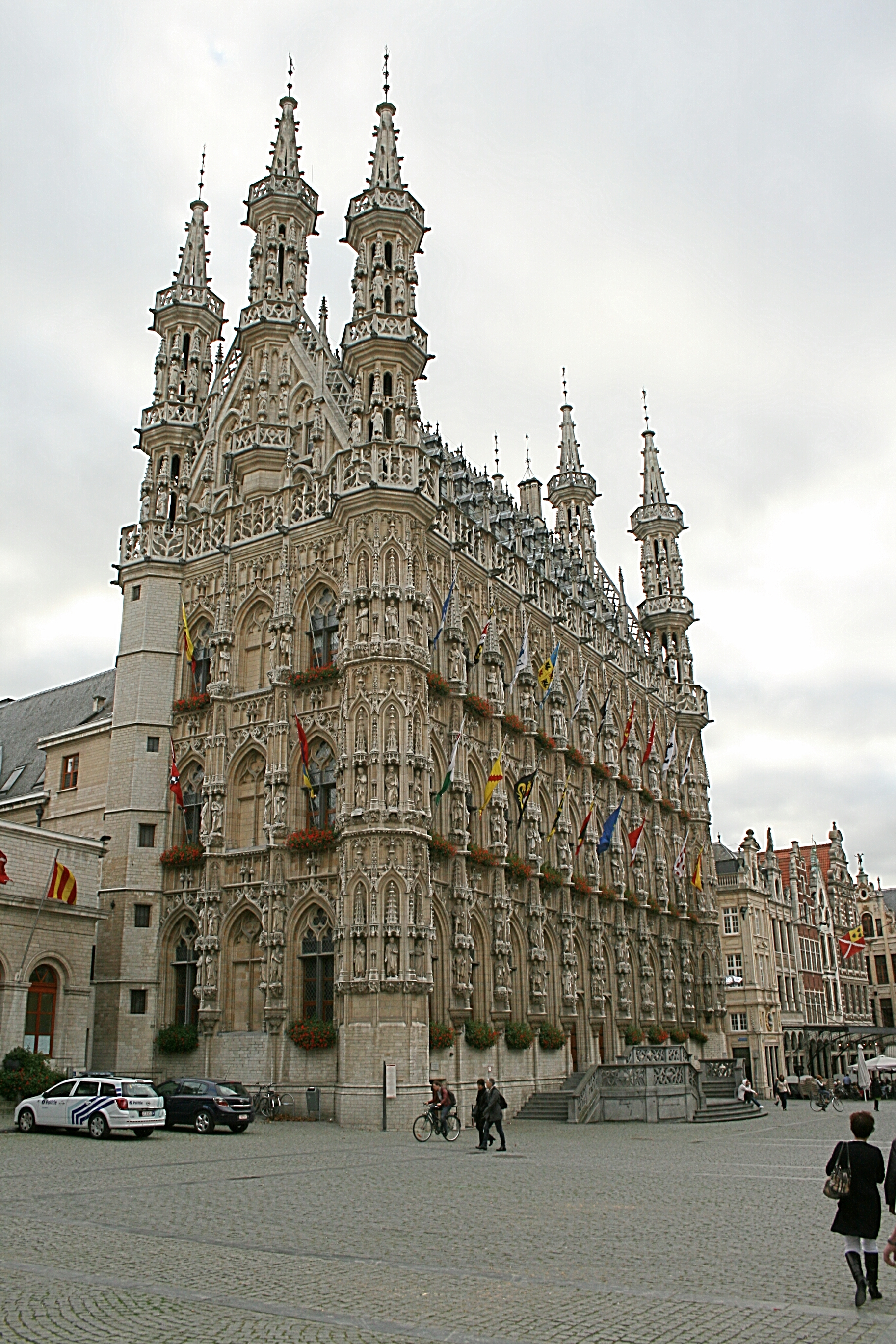 Town hall, Leuven 2011